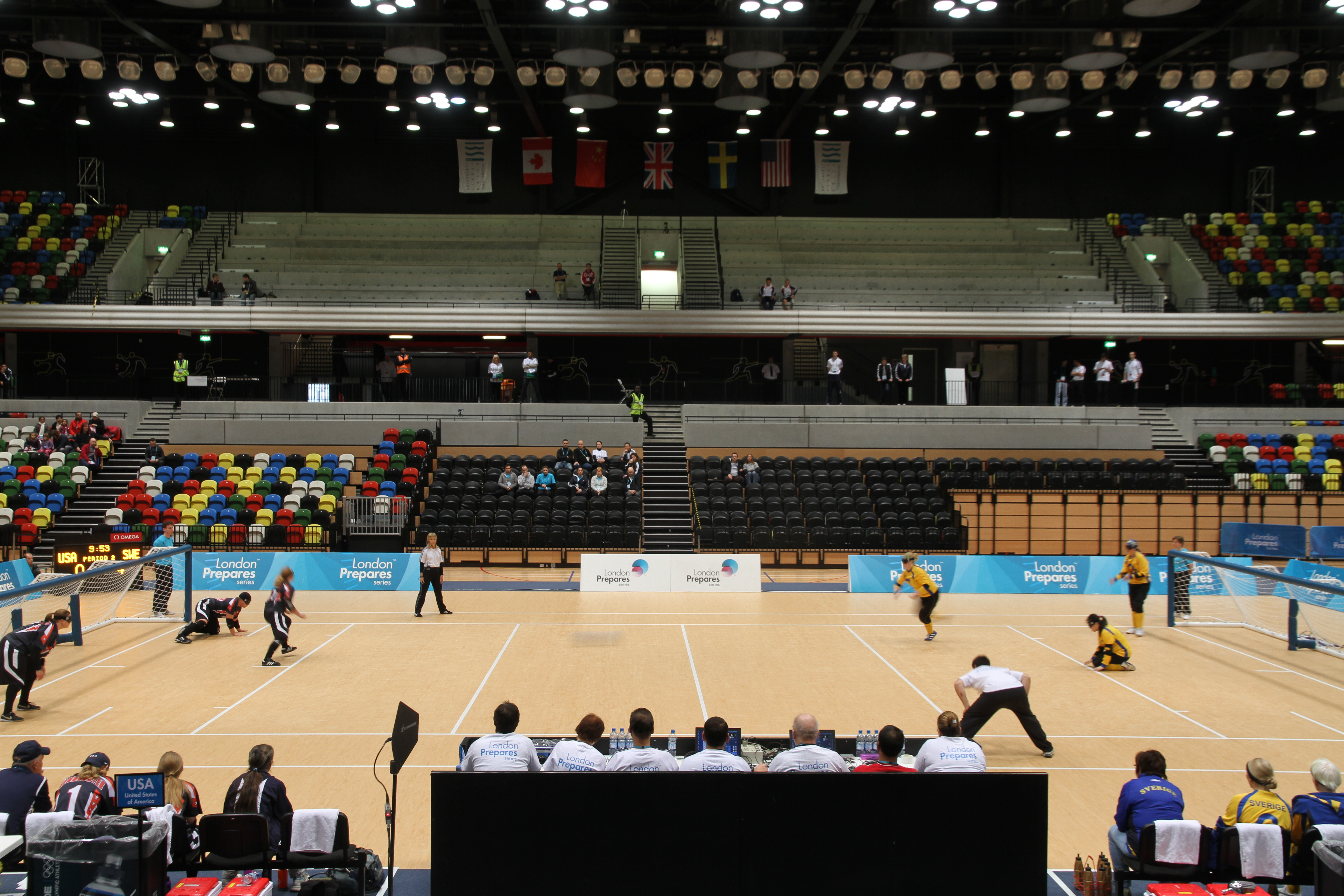 USA vs Sweden Goalball in the Handball Arena in the London Olympic Park